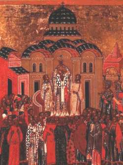 Feast of the Cross